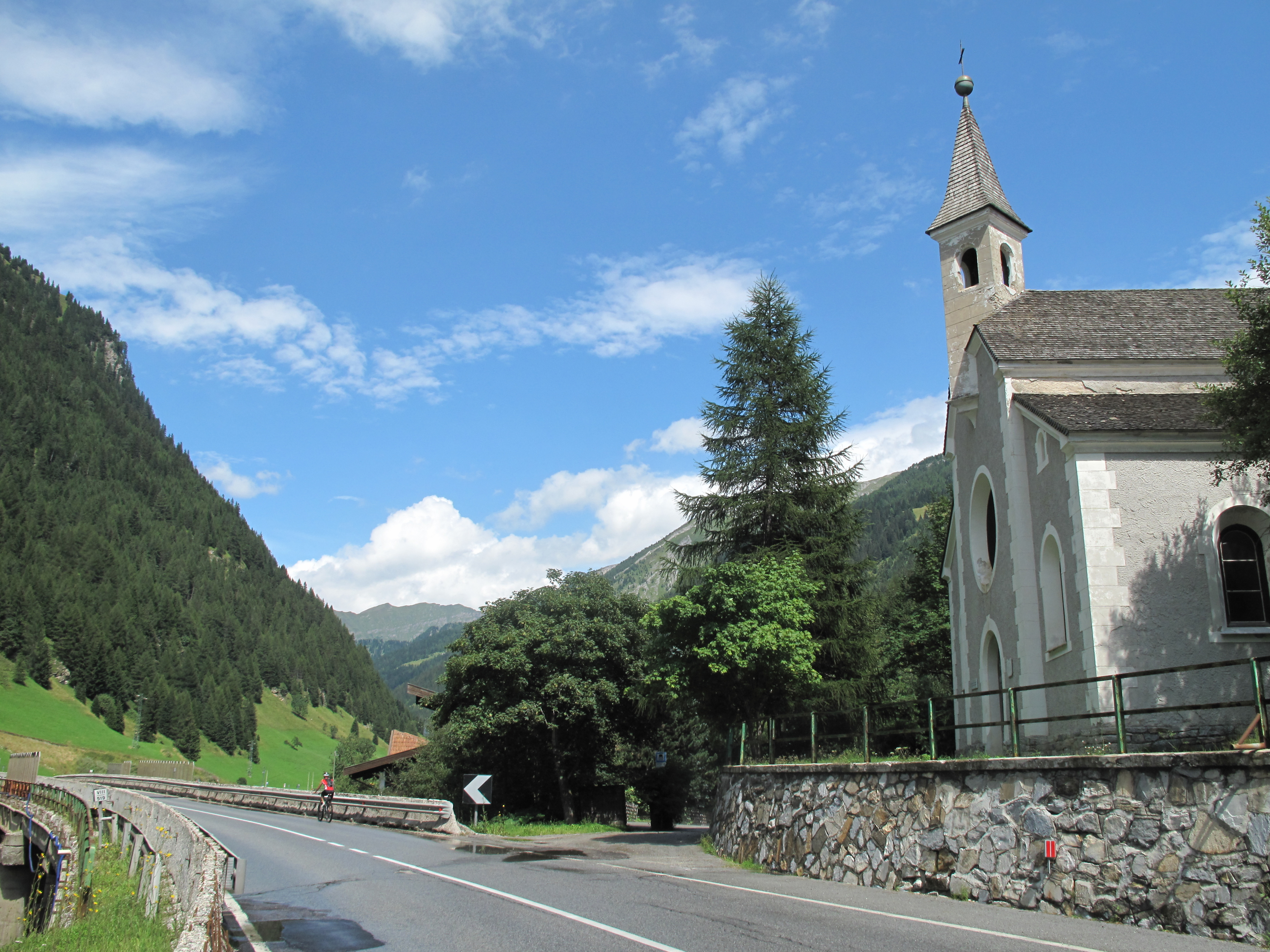 between Brennerbad and Gossensass, chapel